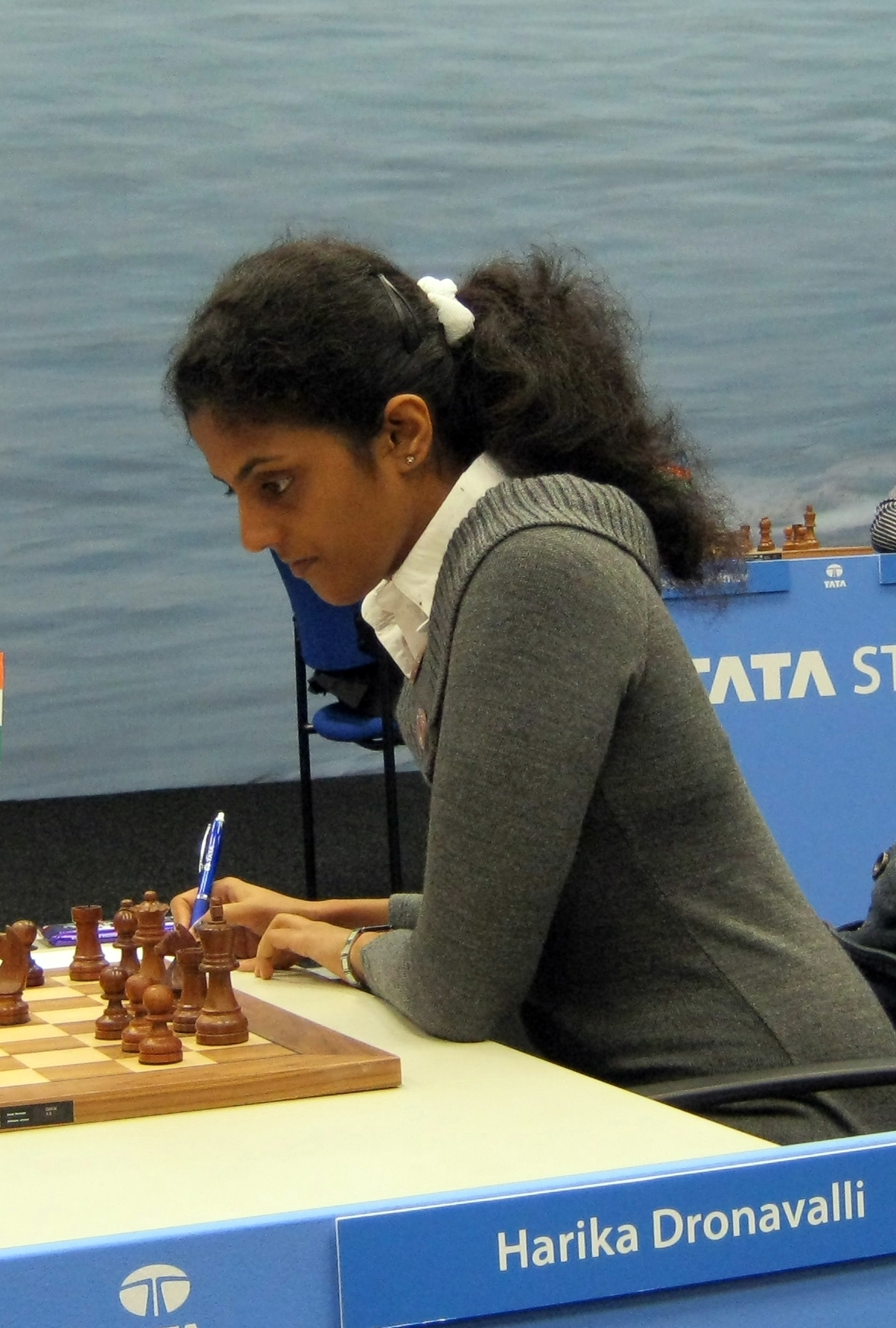 Harika Dronvalli, chess player from India